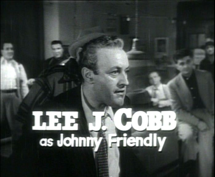 Lee J. Cobb in a screenshot from the trailer for the film On the Waterfront.